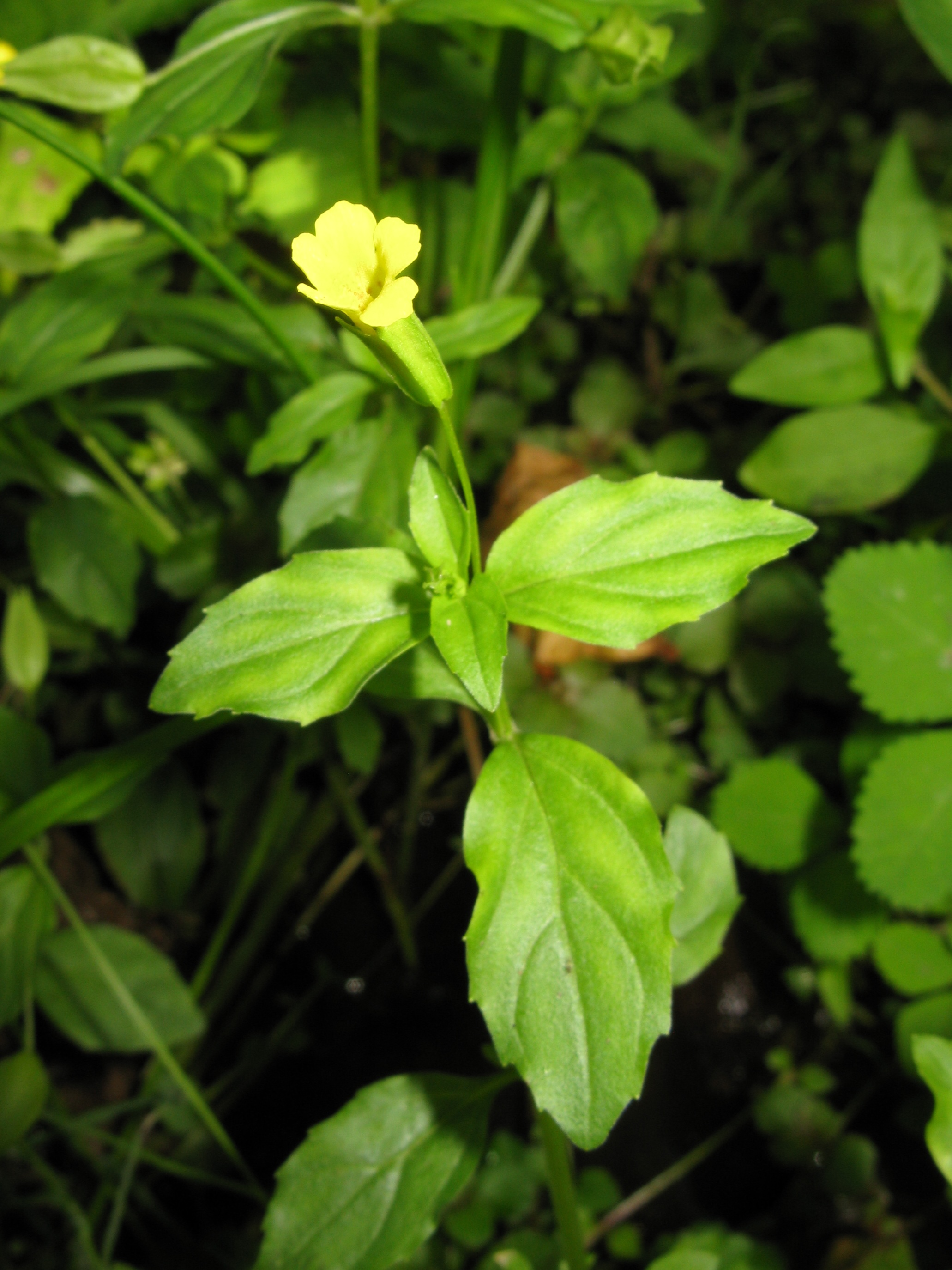 Mimulus nepalensis, Aizu area, Fukushima pref., Japan